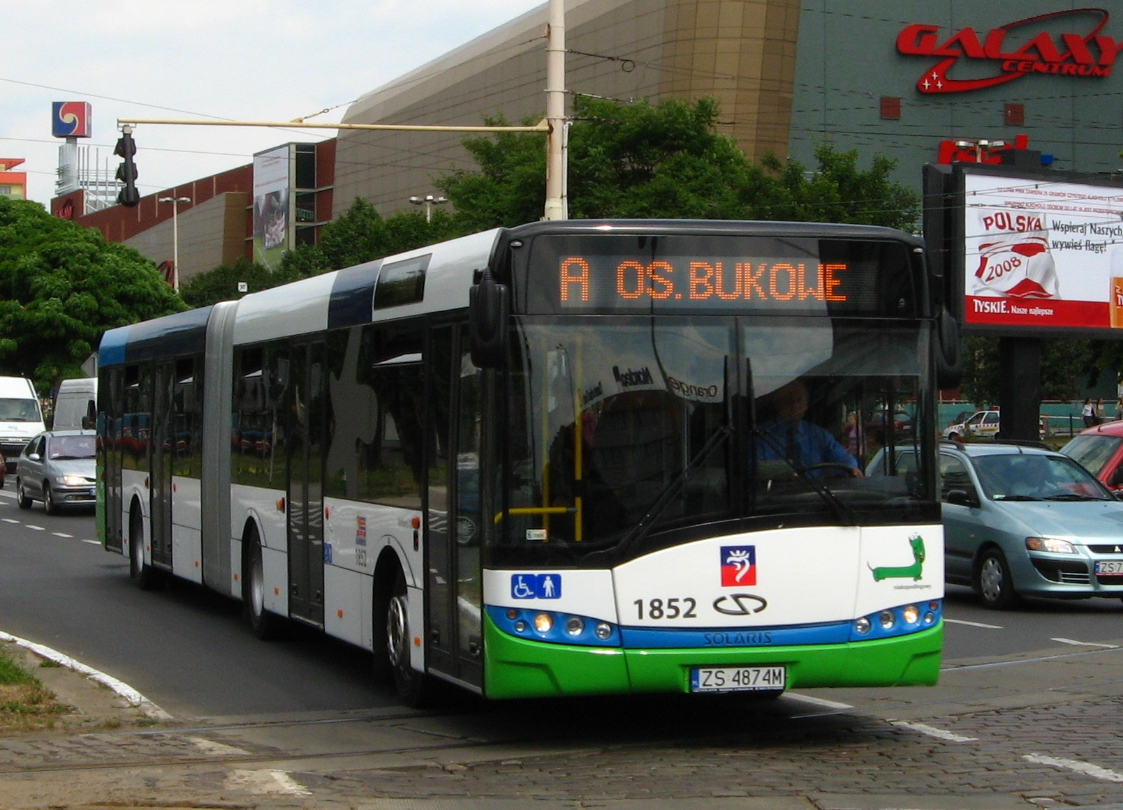 Solaris Urbino 18 bus (#1852) owned by SPA Klonowica in Szczecin, Poland. Built 2008.